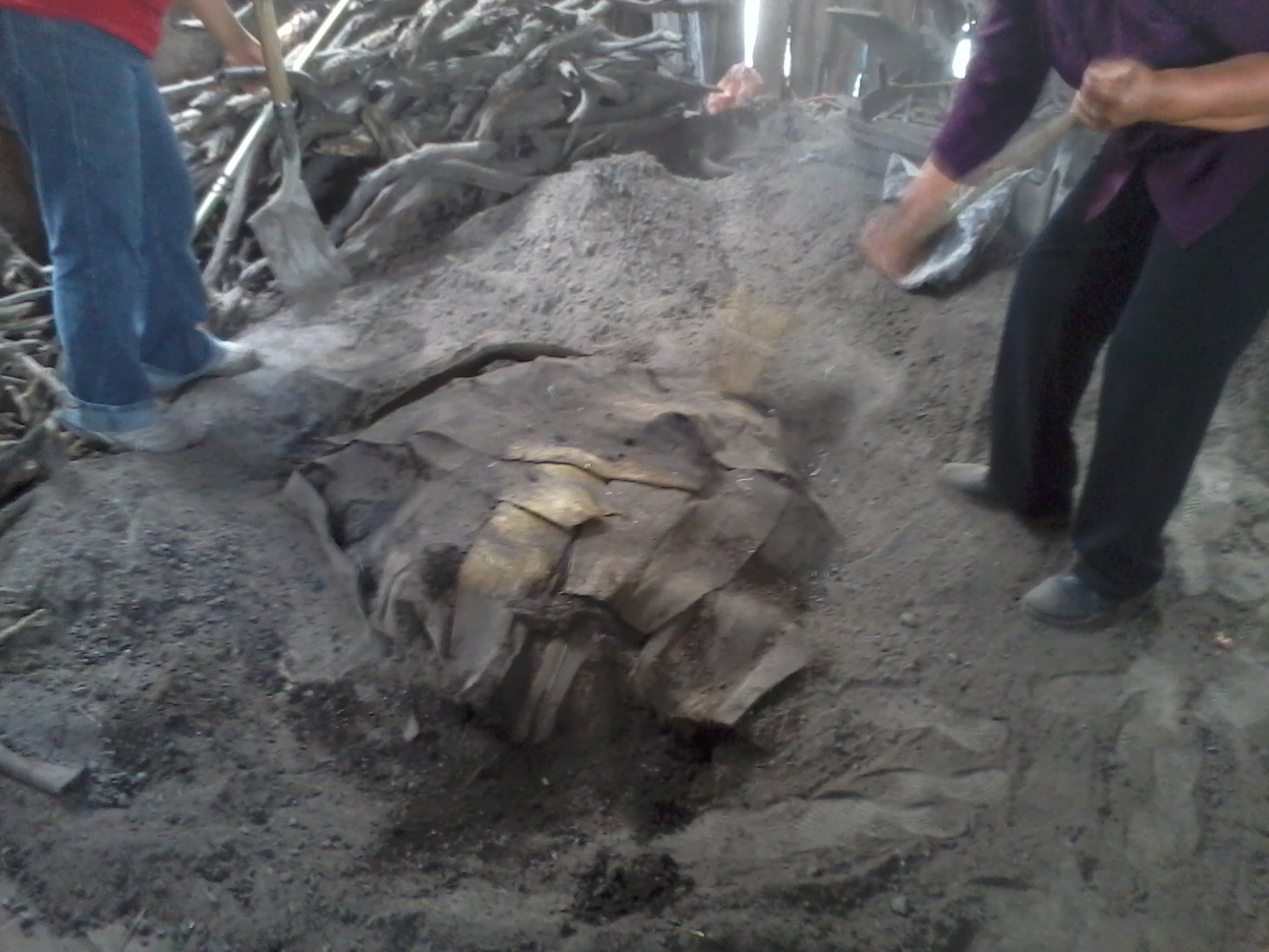 Preparation of barbacoa at a town near Actopan, state of Hidalgo, Mexico.